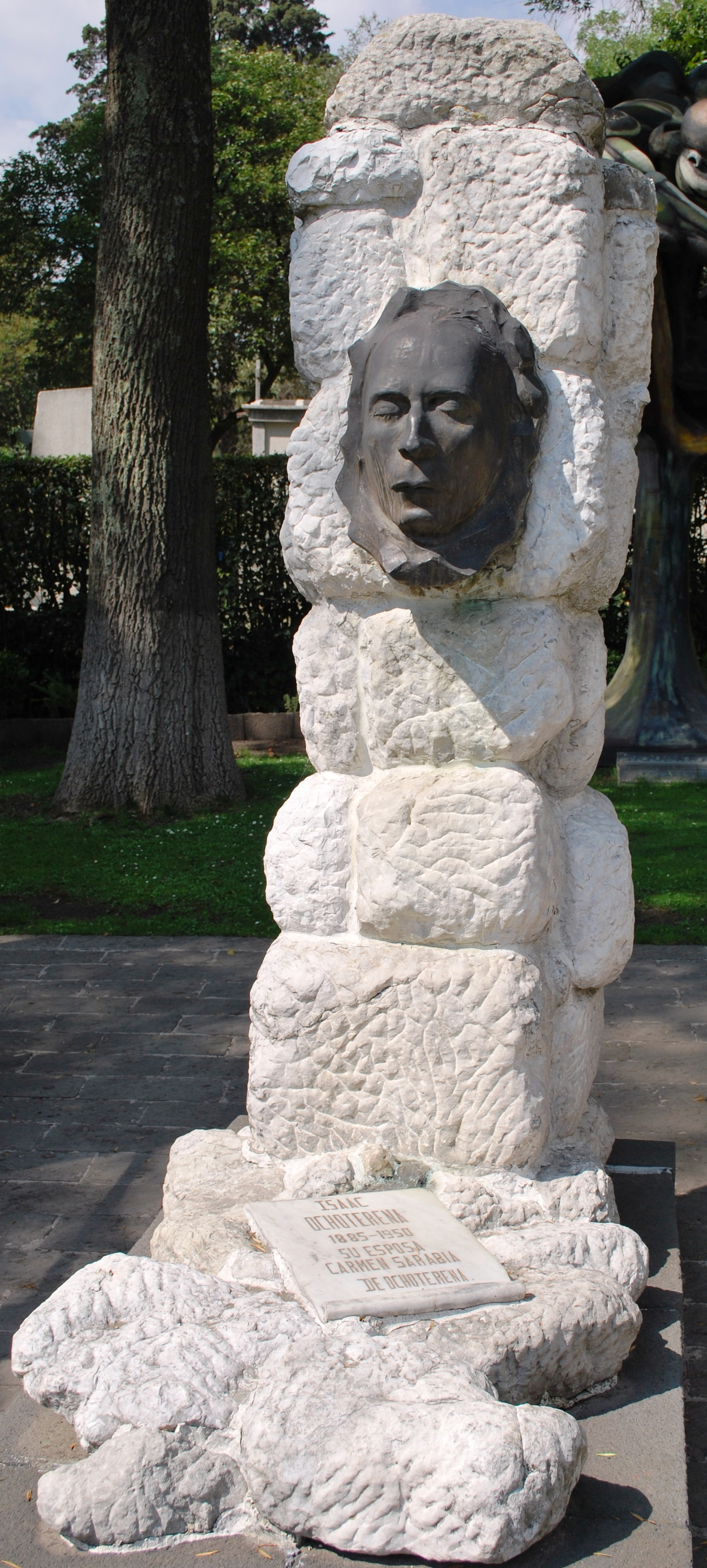 Tomb of Isaac Ochoterena at the Panteon Civil de Dolores Cemetery in Mexico City